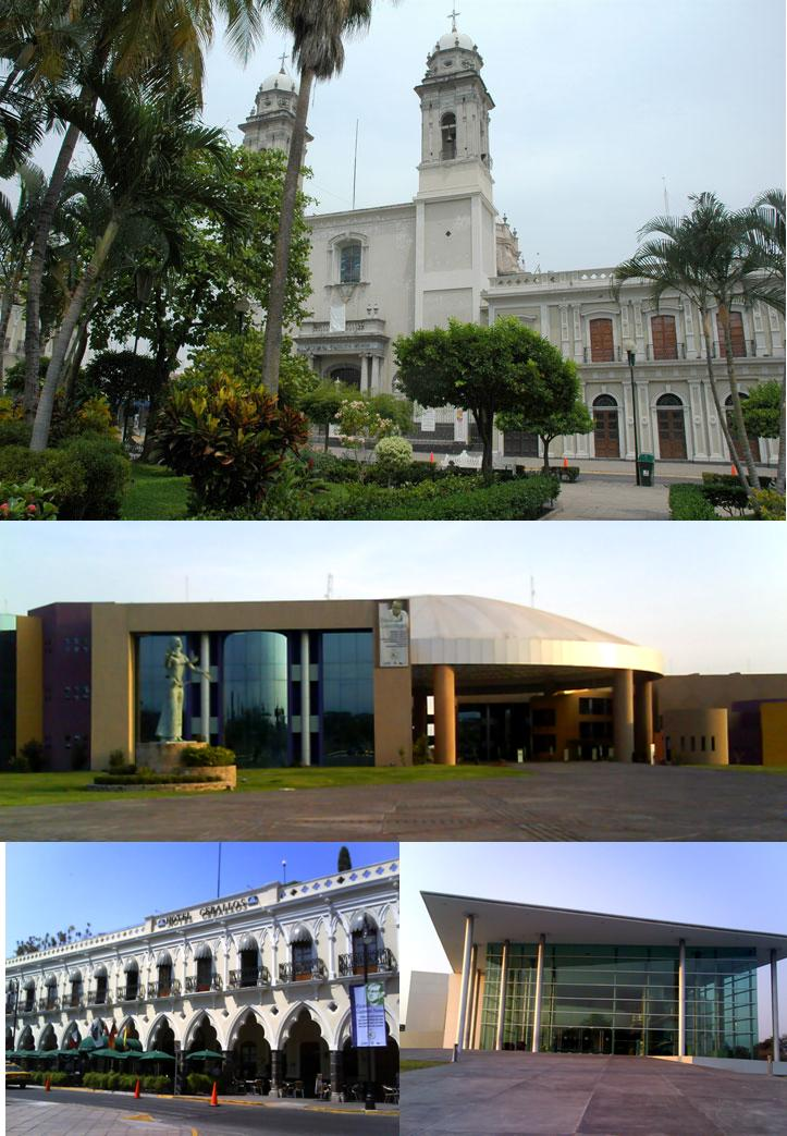 From top left: Basílica Menor, Complejo Administrativo, Hotel Ceballos, University Hall